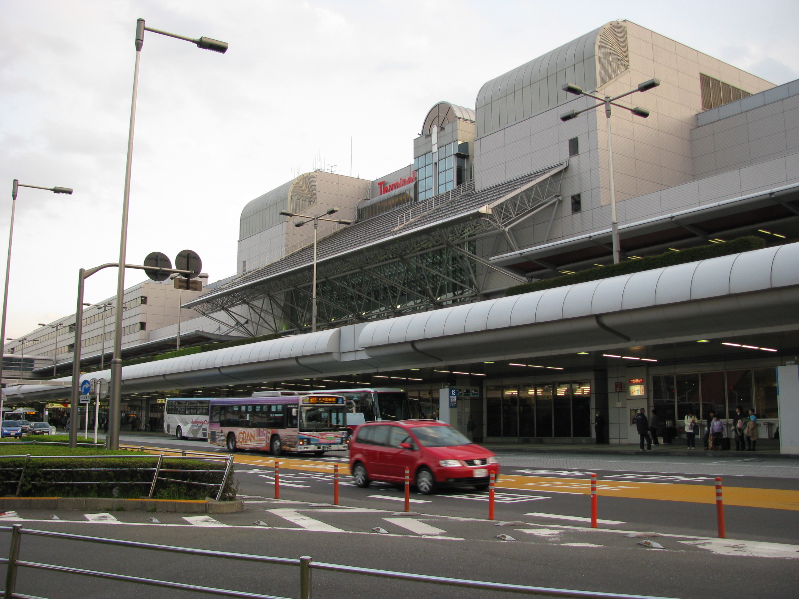 The Terminal 1 building of Tokyo International Airport.